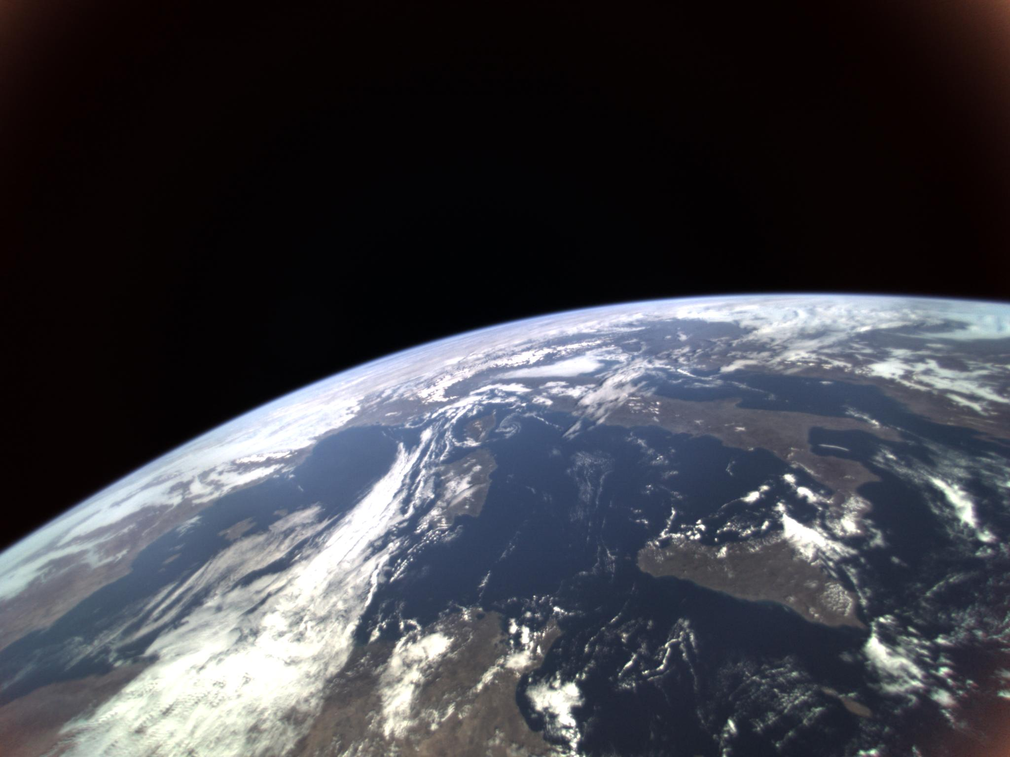 Earth taken by Hodoyoshi-3